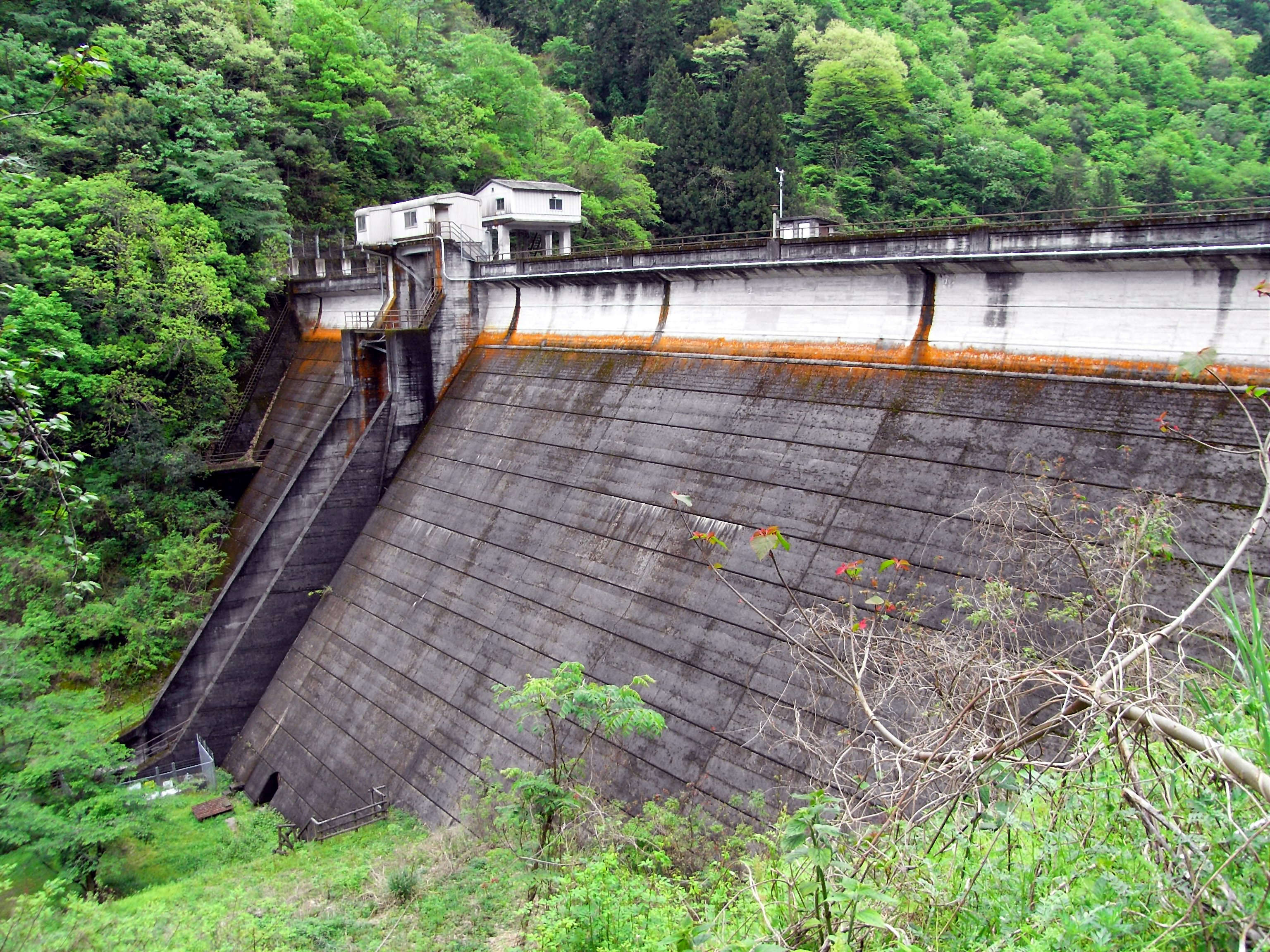 Uga Dam(Takayamagawa river/Hiroshima pref./Japan)